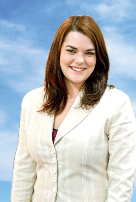 Sarah Hanson-Young, Senator for South Australia